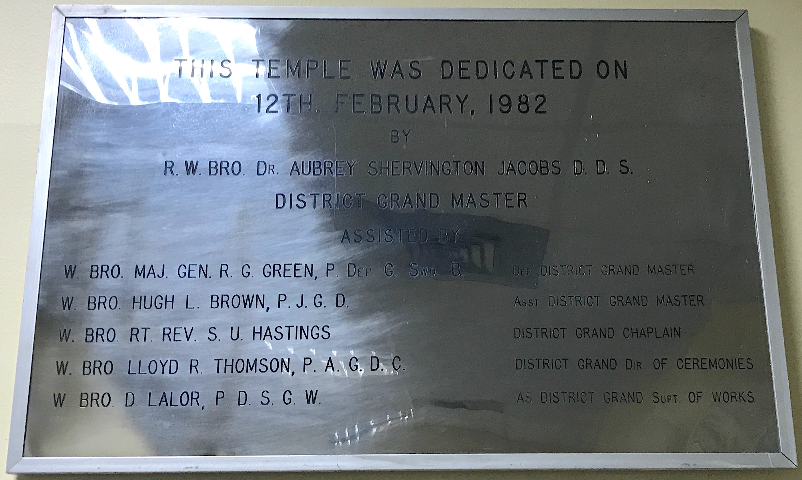 Plaque commemorating the dedication of the new Masonic Temple in Barbados Avenue, Kingston, Jamaica, in 1982, by Dr Aubrey Jacobs, Major-General Rudolph Green, Bishop Selvin Hastings, and others.